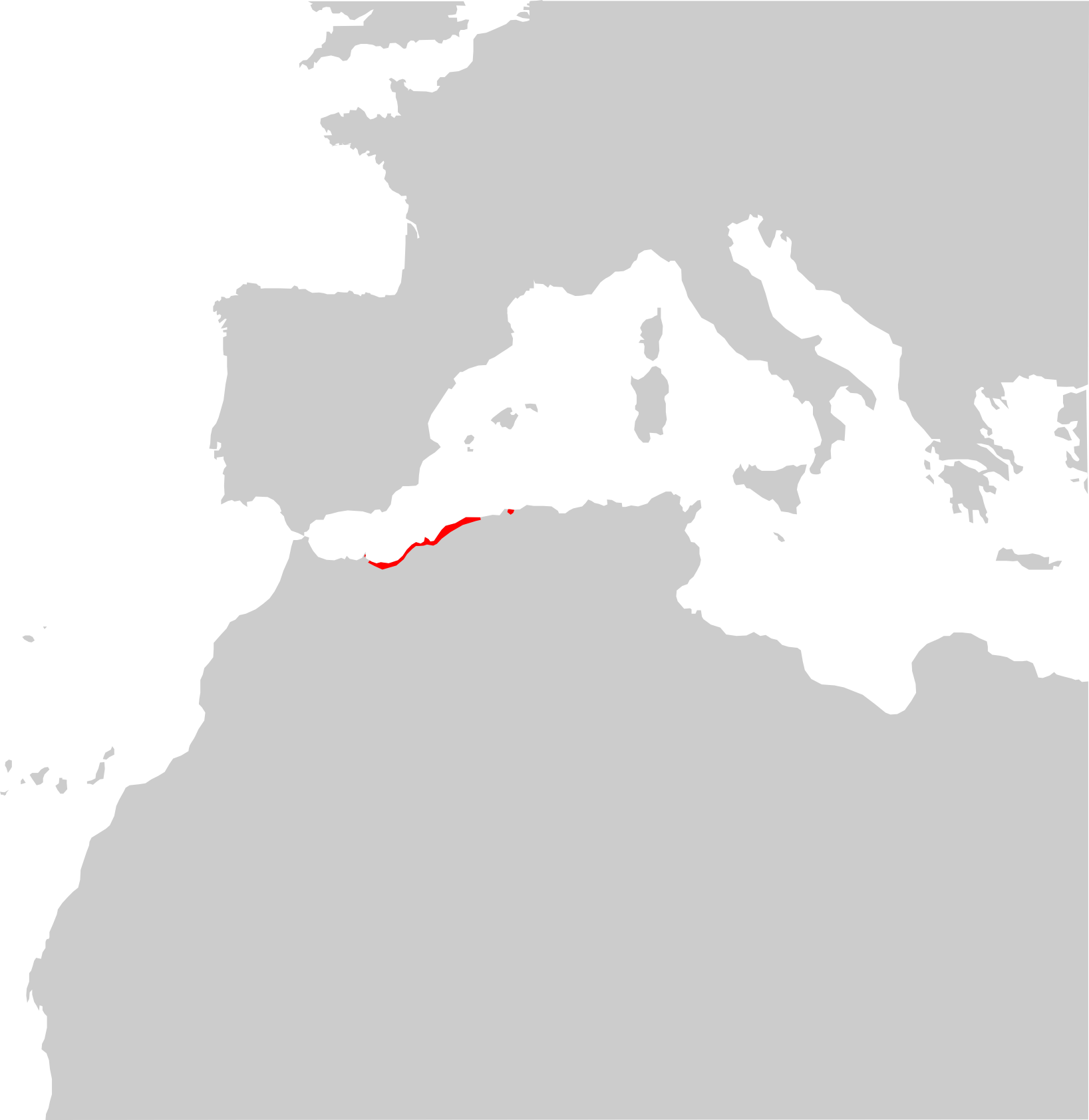 Chalcides mauritanicus distribution map.